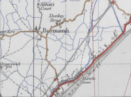 Historical Map showing Burmarsh, Kent. First published in 1945.